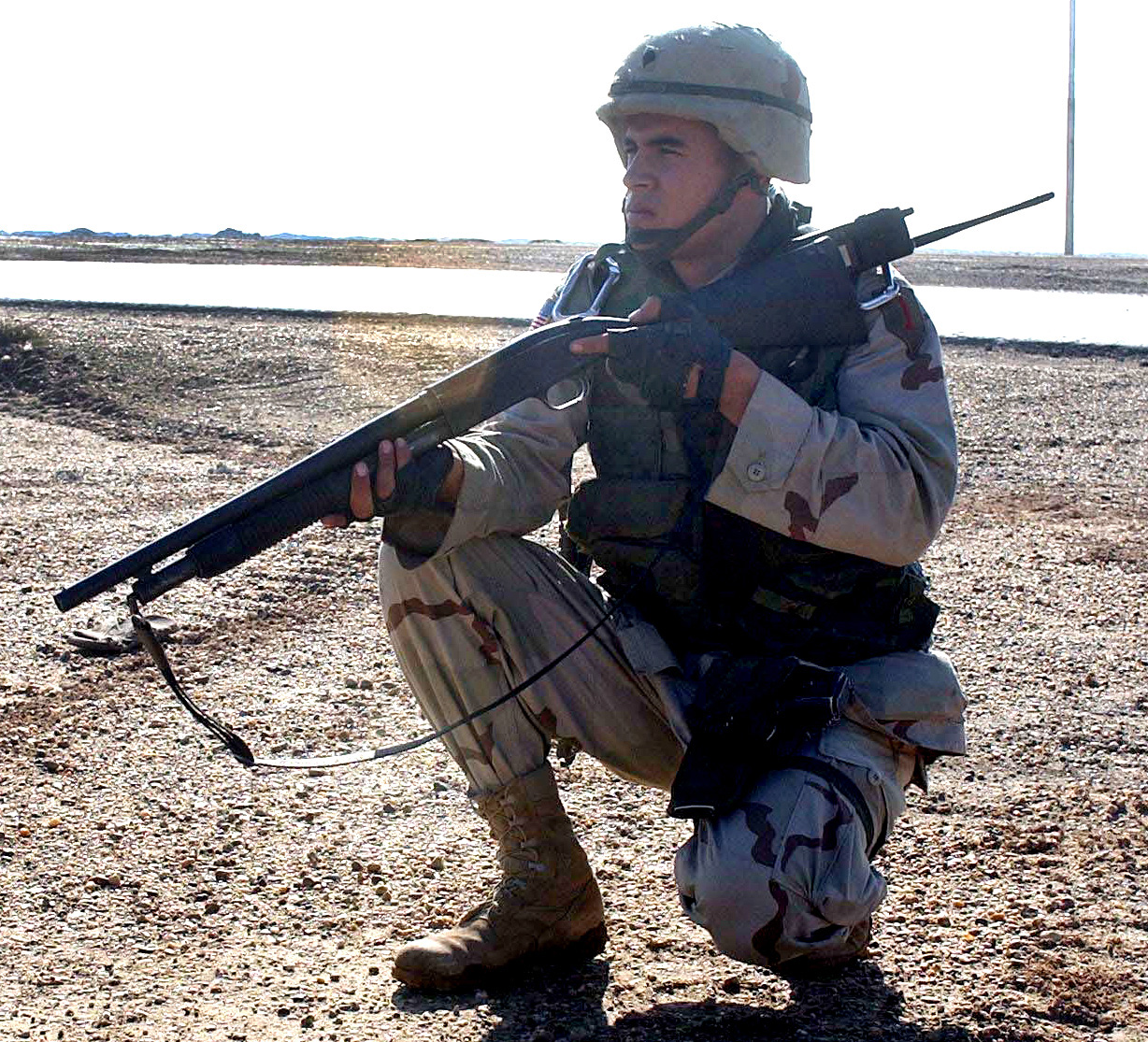 Specialist Freddy Ojeda kneels by a roadside while providing security in Al Ramadia, Iraq. Ojeda is assigned to Headquarters Company, 1st Brigade, 1st Infantry Division.